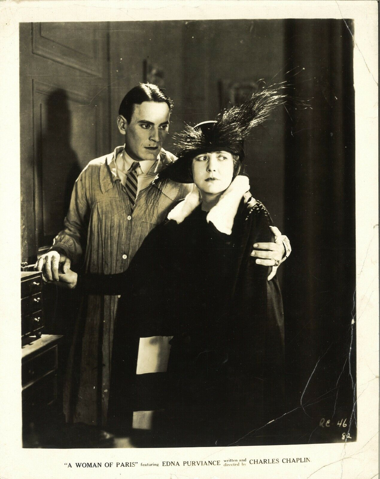 Lobby card for the American film A Woman of Paris (1923) with Carl Miller and Edna Purviance.